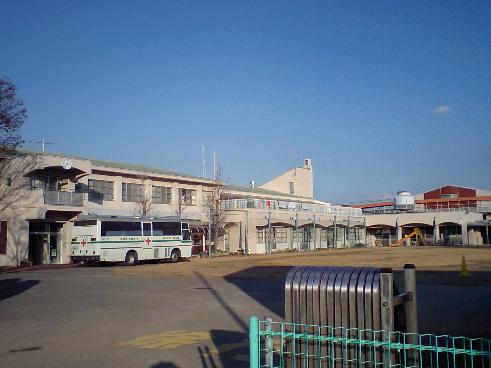 Kagawa prefectural Kagawa eastern school for special education (from Another angle)